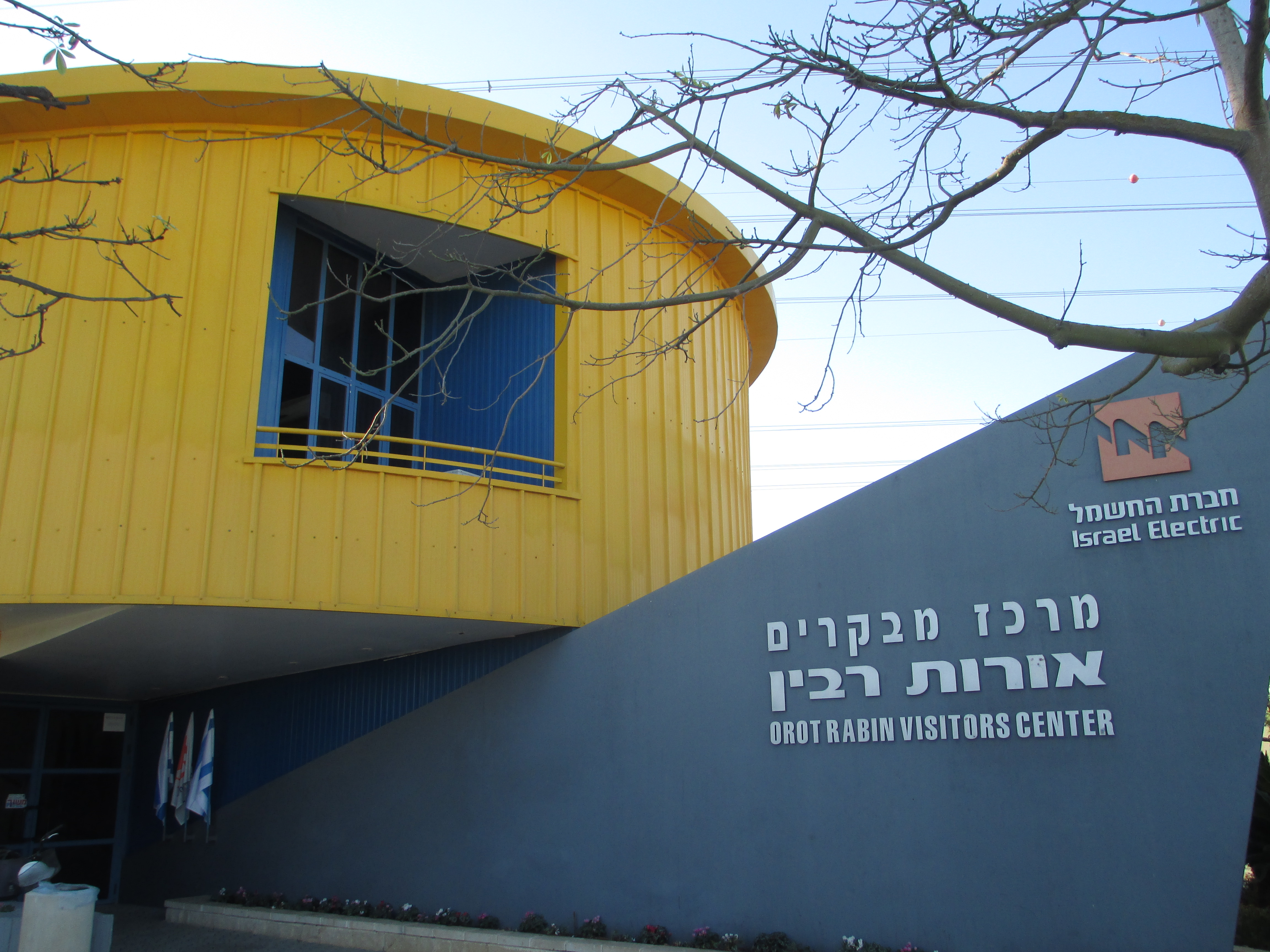 Orot Rabin Power Station